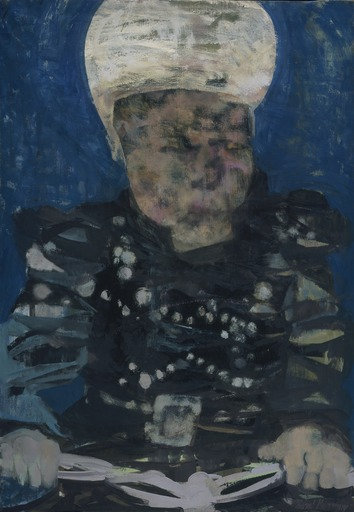 Bear Cat